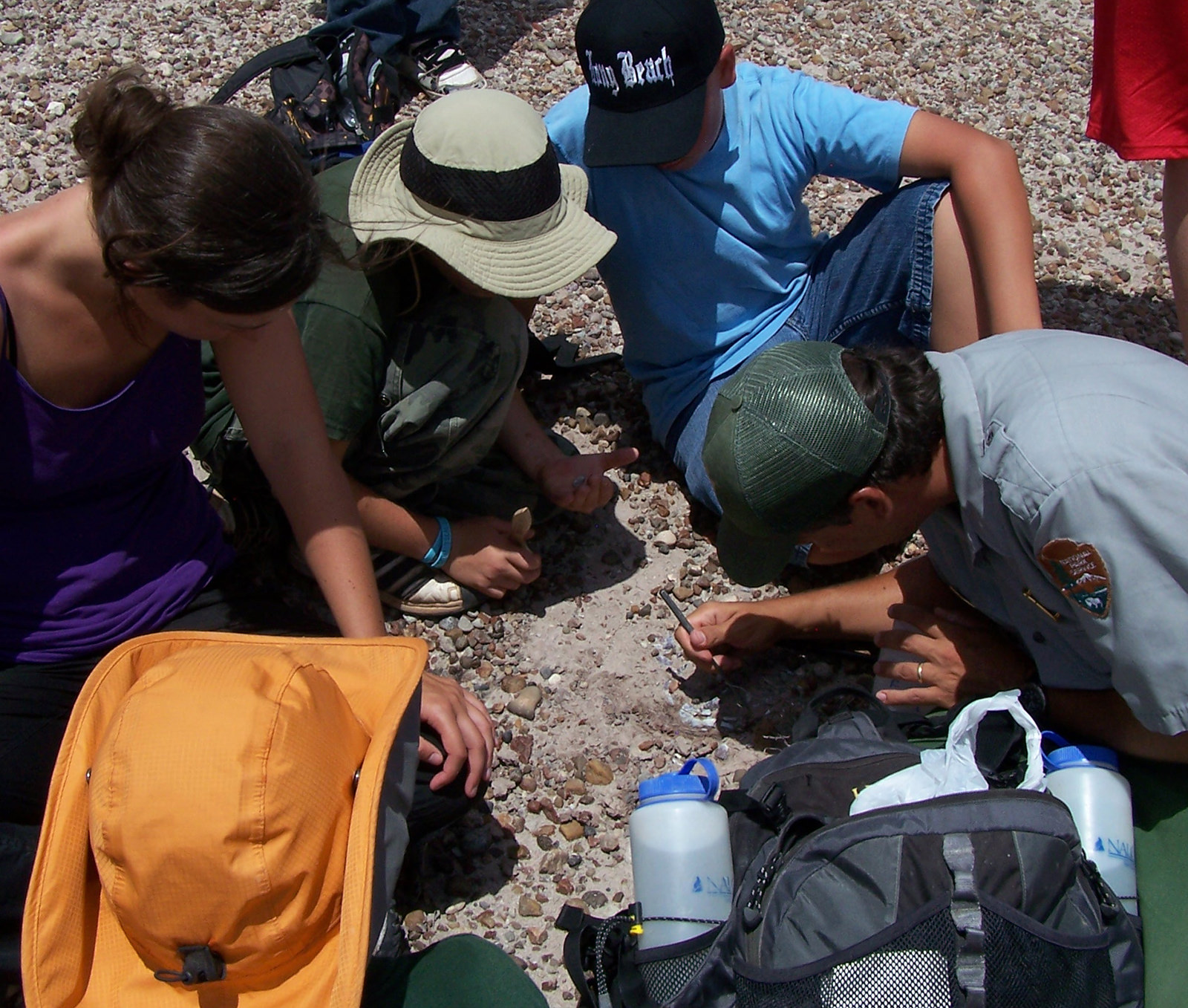 People - Day Camp Field Trip with Park Paleontologist Bill Parker